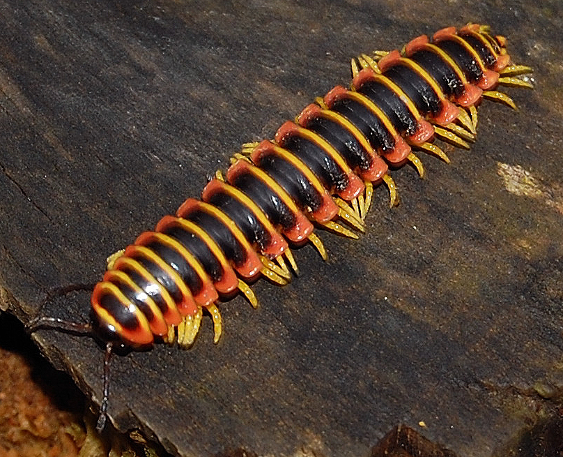 Apheloria virginiensis. The image shows the millipede Apheloria virginiensis crawling on a rotting tree stump.